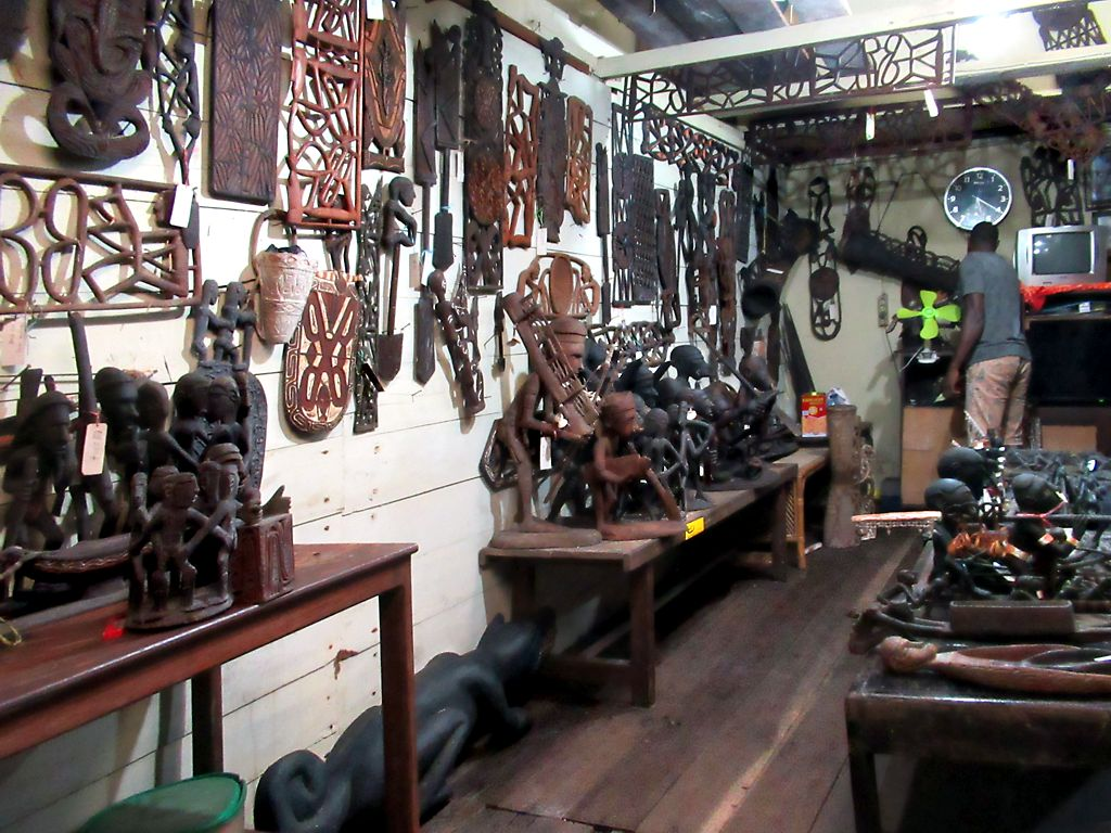 Local artefacts are for sale at the Asmat Queen Art Shop in Agats, Asmat, West Papua (Irian Jaya), Indonesia.